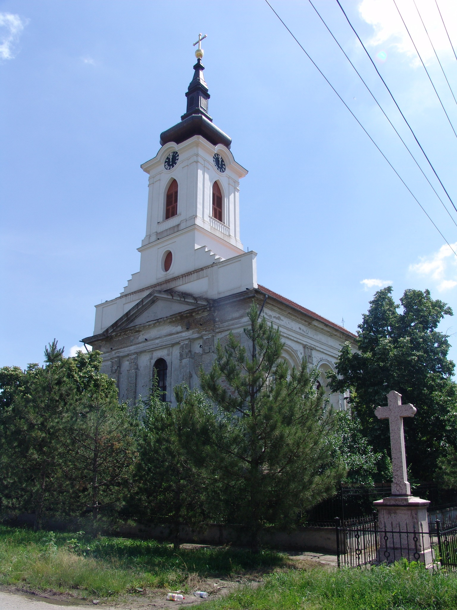 Serbian Orthodox church in Dragutinovo (Novo Miloševo) - western facade